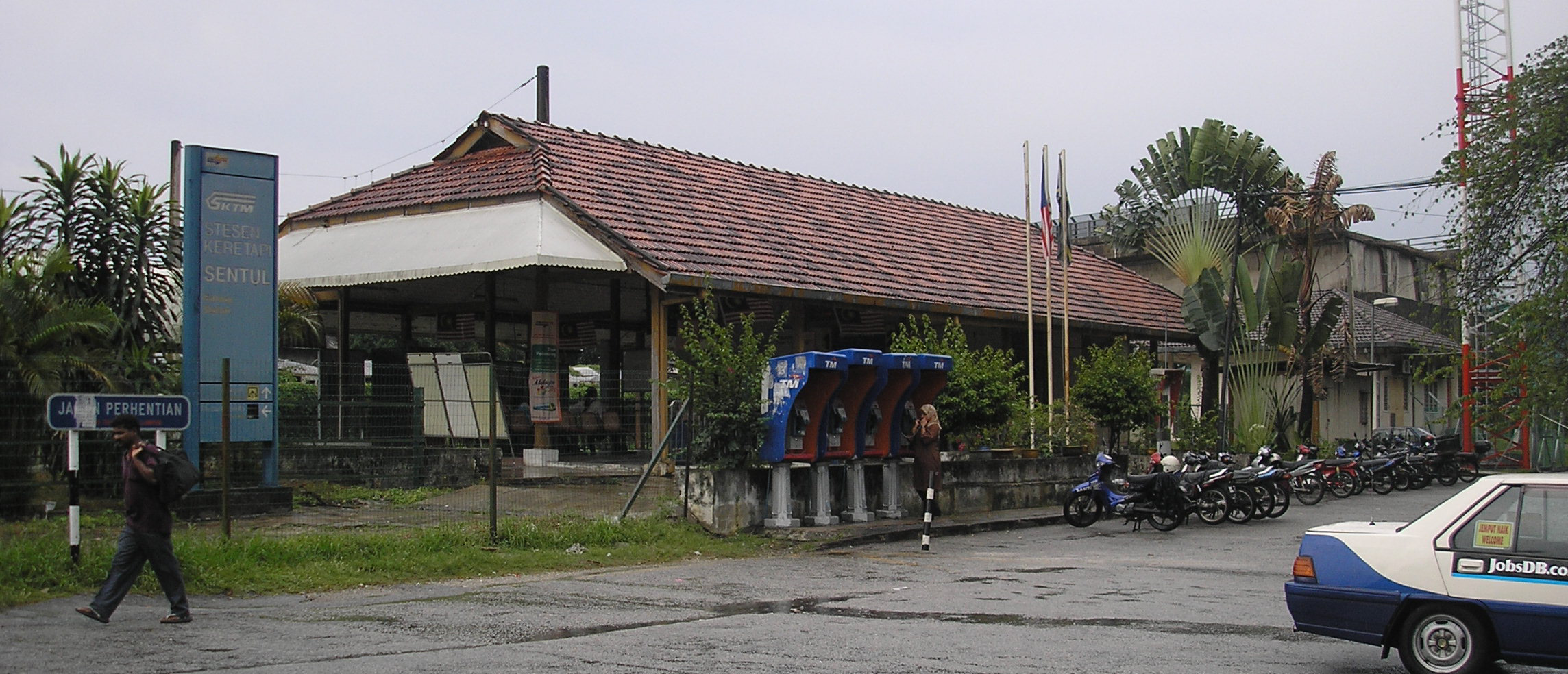 The exterior of the old Sentul station (Sentul-Port Klang Line), in Sentul, Kuala Lumpur Malaysia.